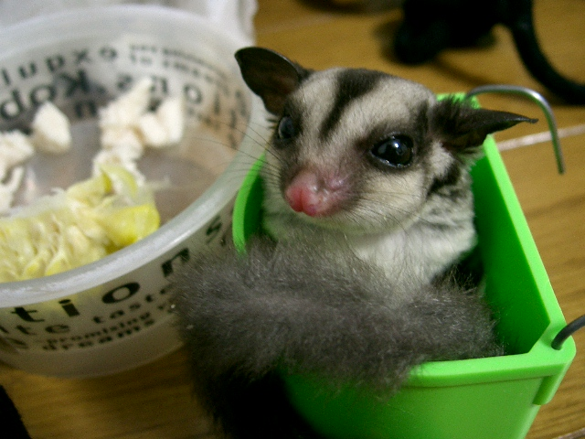 Relaxed Sugar Glider